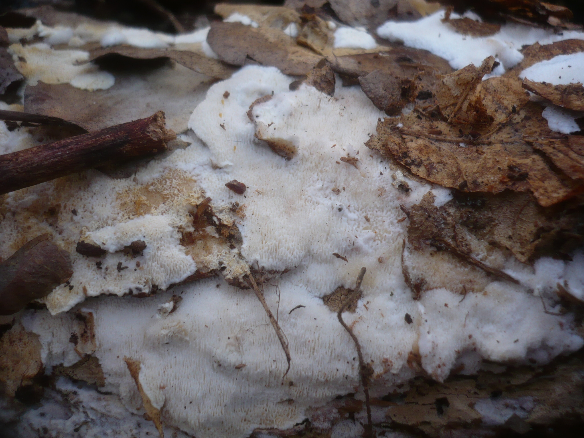 The crust fungus Sidera lenis (P. Karst.) Miettinen. Photographed in Kobel, Jois, Bezirk Neusiedl am See, Burgenland, Austria.